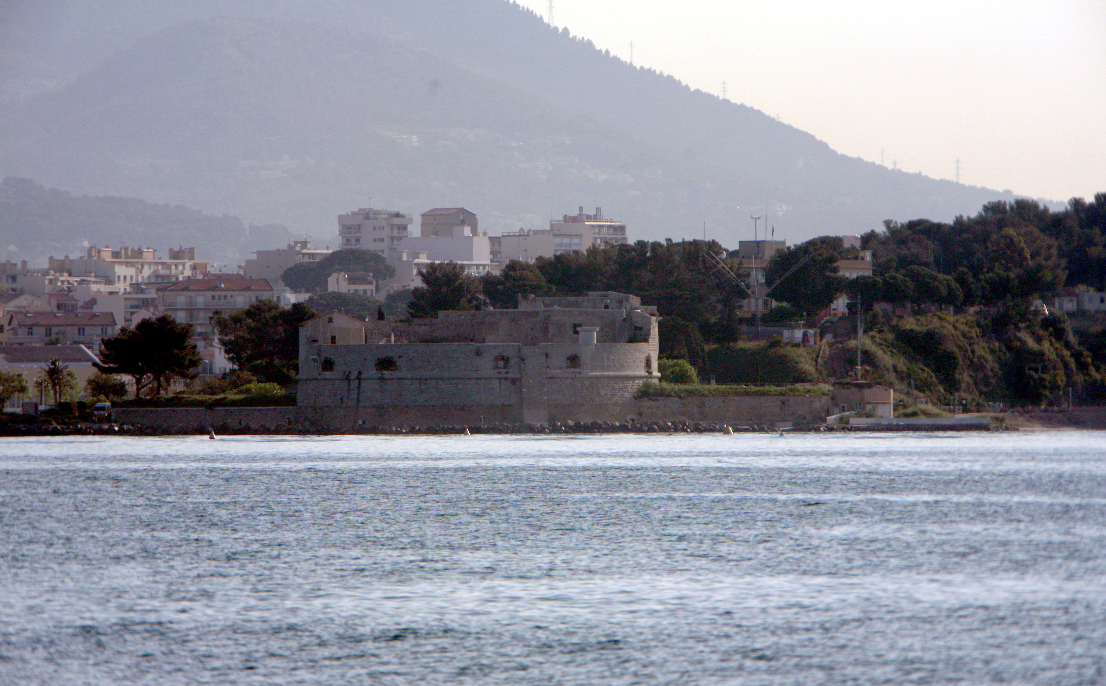 Tour Royale fort in Toulon harbour